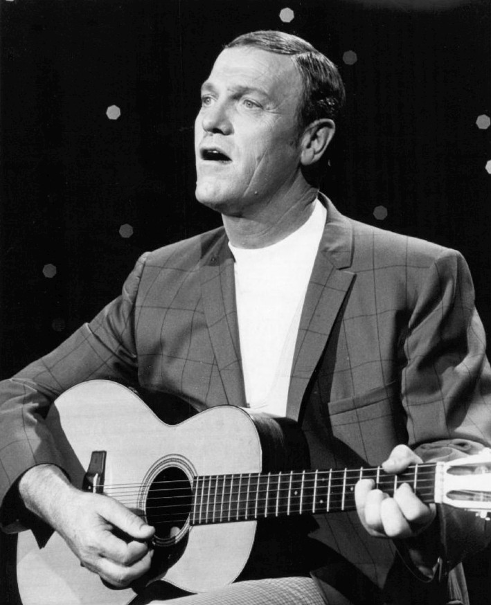 Photo of Eddy Arnold performing on the television program Kraft Music Hall.